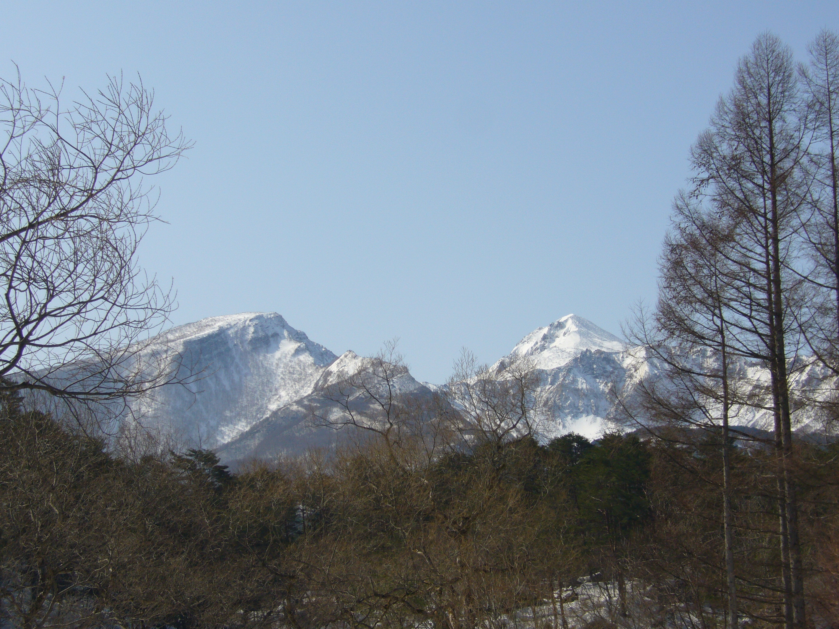 Mt.Bandai in Fukushima, Japan. A view from around here.